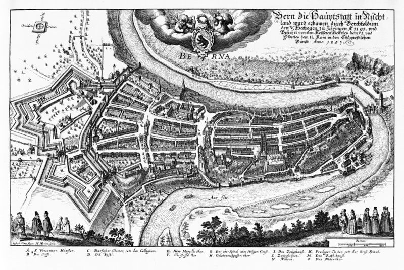 Bern with the river Aare